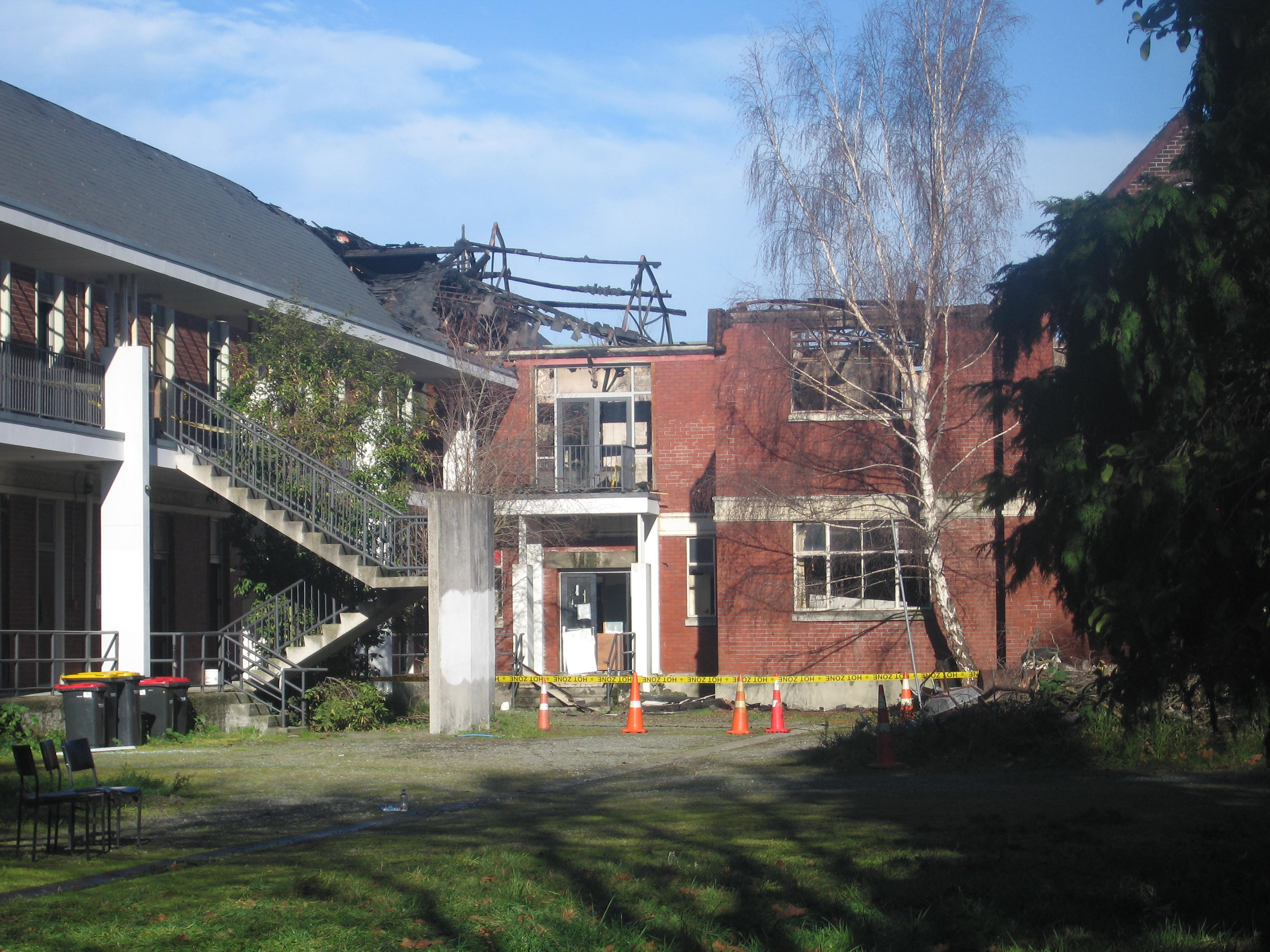 A view from Riccarton Road on 13 July 2019, the morning after the fire of the previous evening.